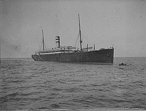 Putting the Pilot on the SS Noordam.